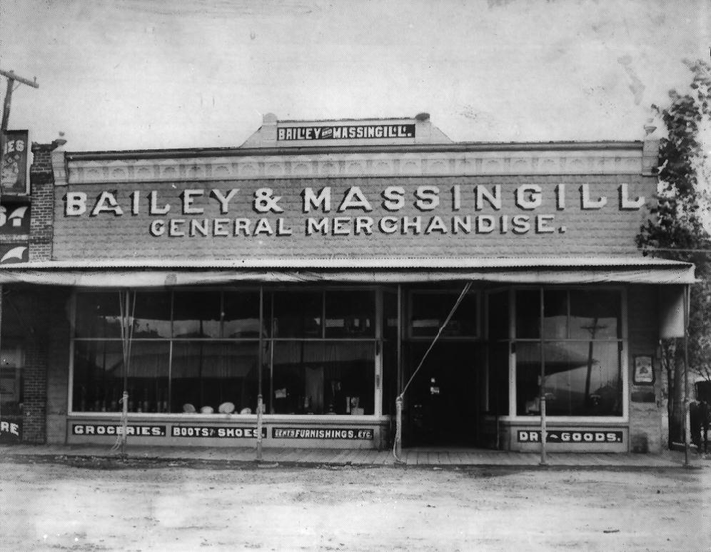 The historic Bailey and Massingill General Store (built 1900), located at 4 North E Street in Lakeview, Oregon, United States, is listed on the US National Register of Historic Places.